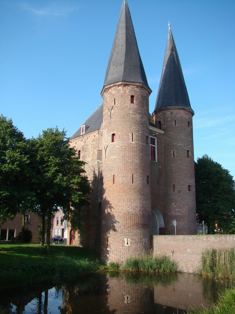 Nobelpoort in Zierikzee, Netherlands